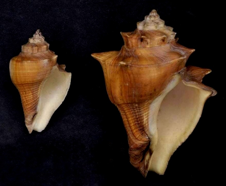 Two seashells of the species Volegalea cochlidium (Linnaeus, 1758)[1]; from Maluku Islands or the Moluccas; an archipelago in eastern Indonesia.